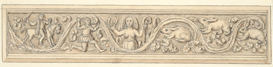 Shrine of St. Monacella in Pennant Melangel Church, 1795